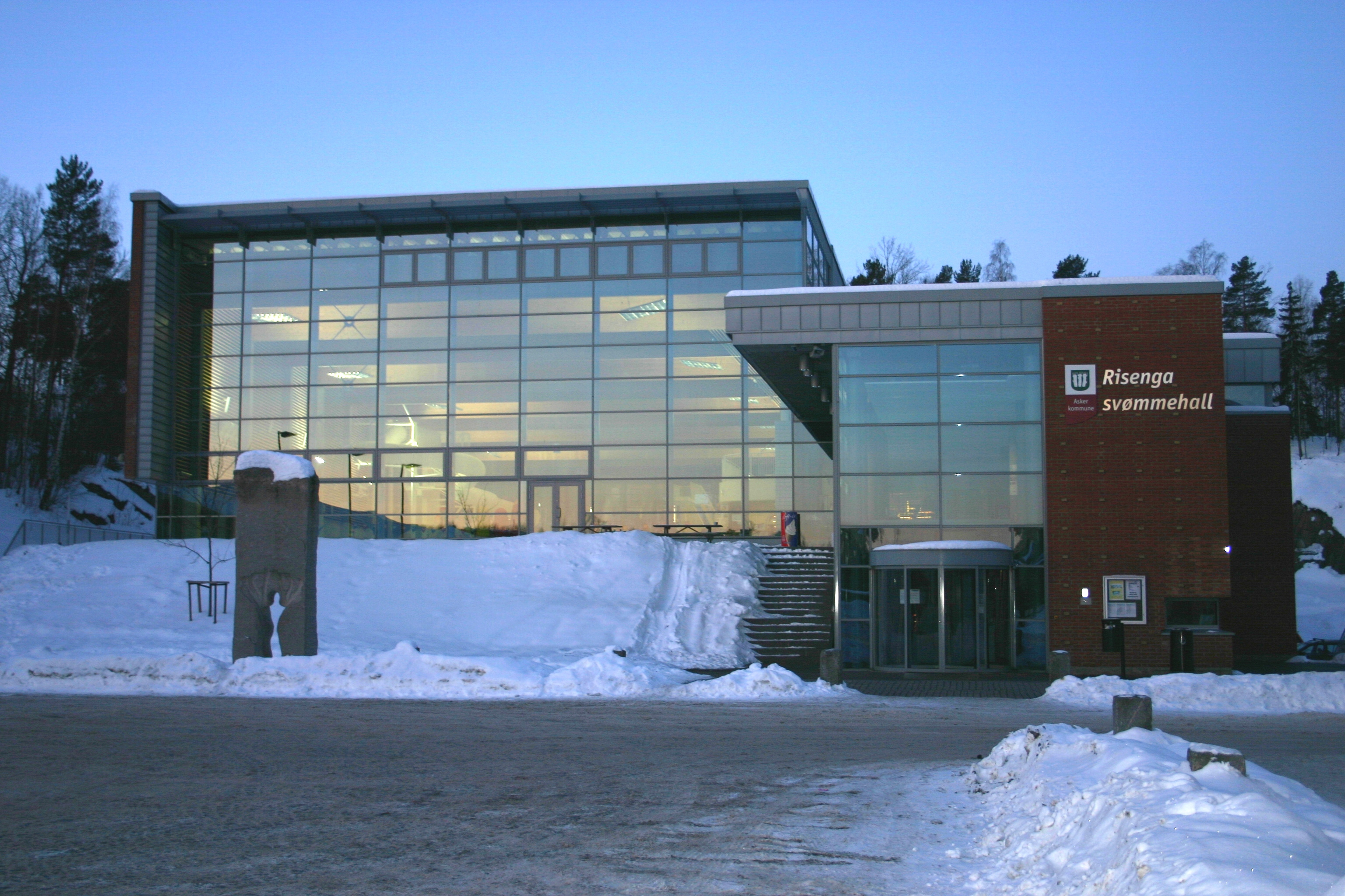 Risenga svømmehall - Risenga svimming pool/hall in Asker Norway